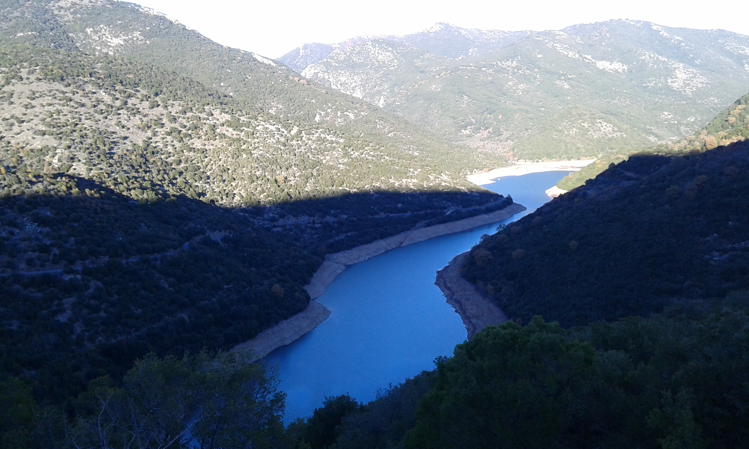 Ladonas lake